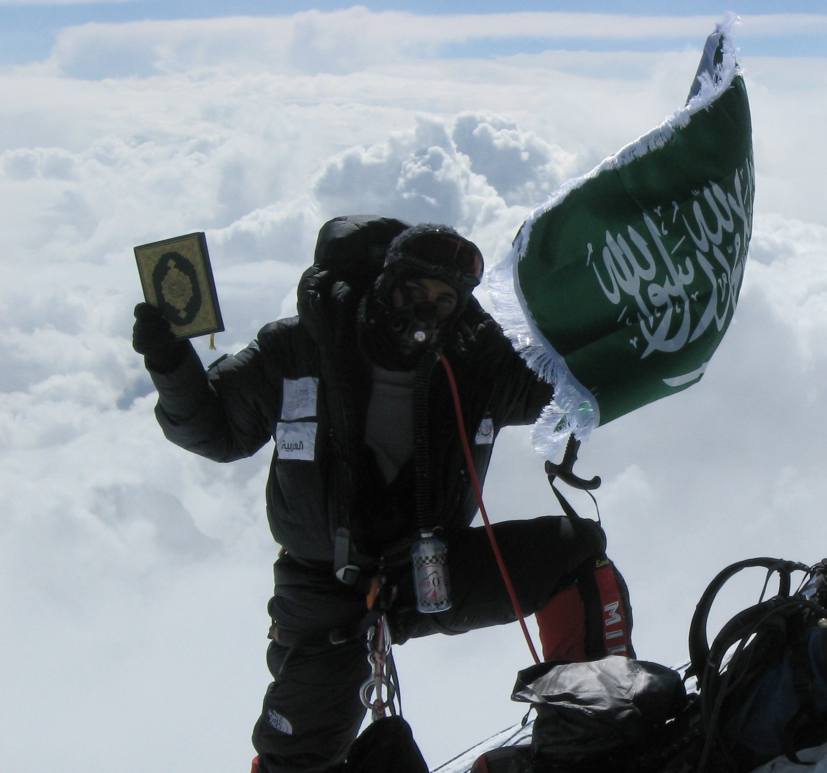 Hero Farouq on top of the world. Mt. Everest